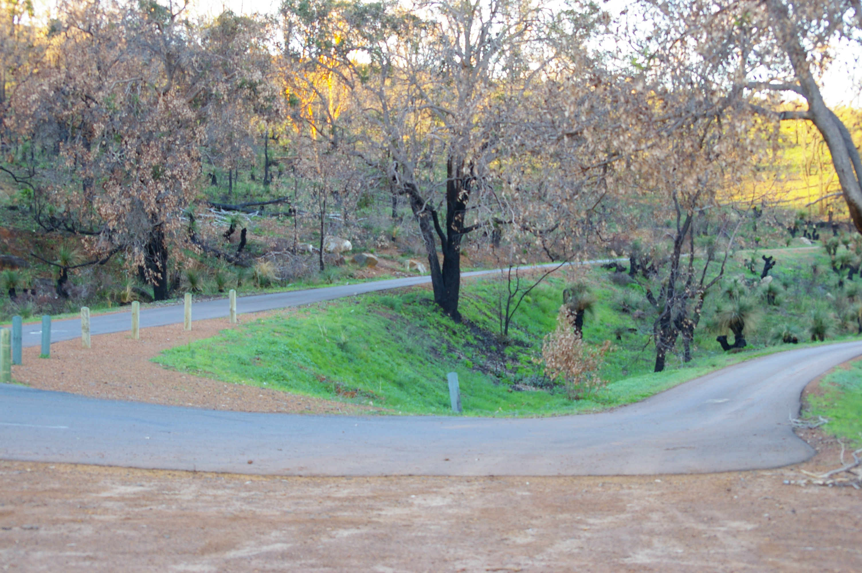 Stathams Quarry switch point on the Zig Zag section of the Upper Darling Railway between Helena Valley and Gooseberry Hill, the area is now part of a conservation reserve. You'll notice that the area was subject to a major fire event which occurred in February/March 2007